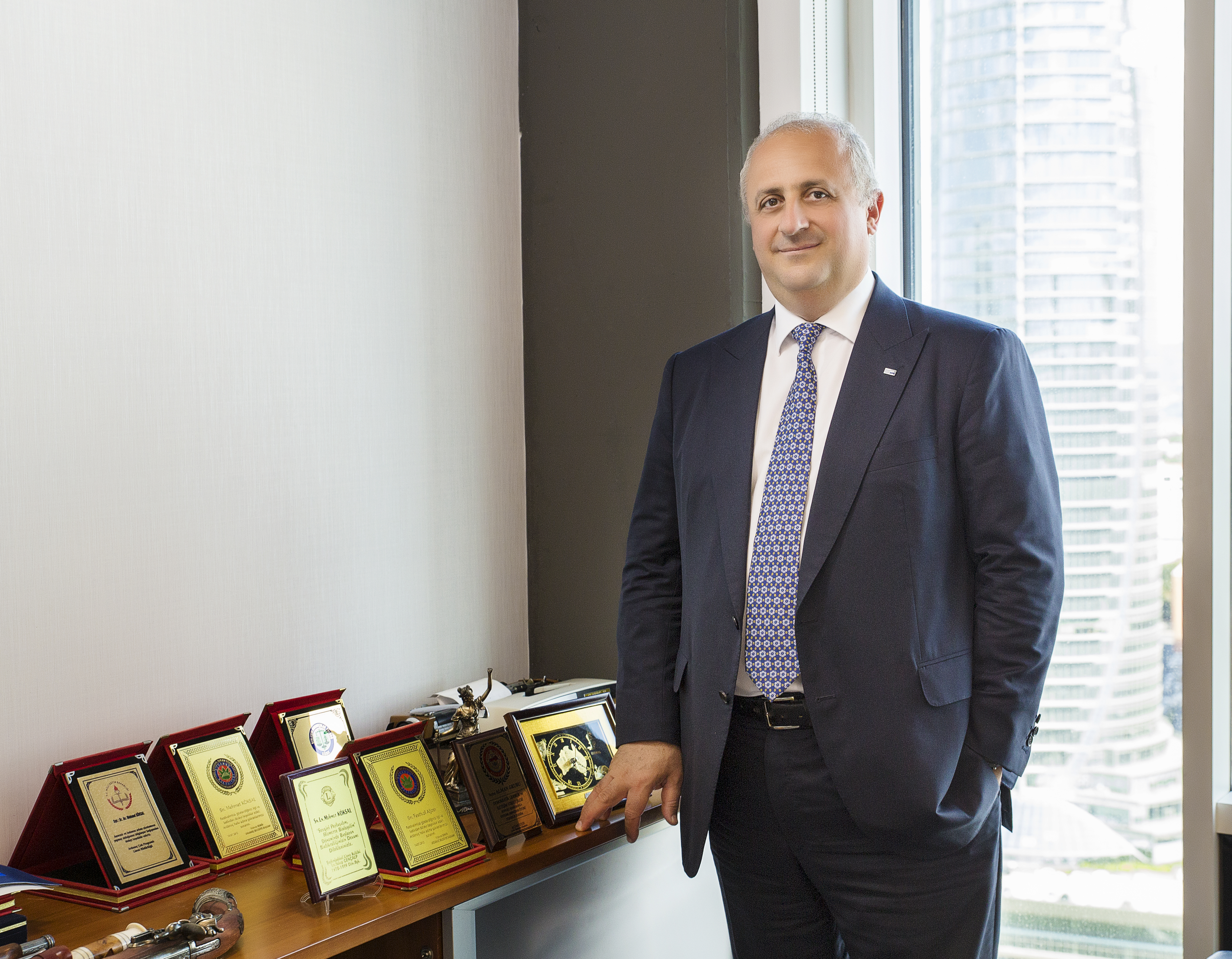 Assoc. Prof. Dr. Mehmet Köksal in his Istanbul office